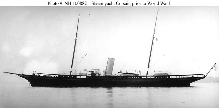 Corsair (American Steam Yacht, 1899) Photographed by Edwin Levick of New York City, prior to her World War I Naval service. Built in 1899 for financier J.P. Morgan, this yacht served as USS Corsair (SP-159) during World War I and as USS Oceanographer (AGS-3) during World War II. The original print is in National Archives' Record Group 19-LCM.